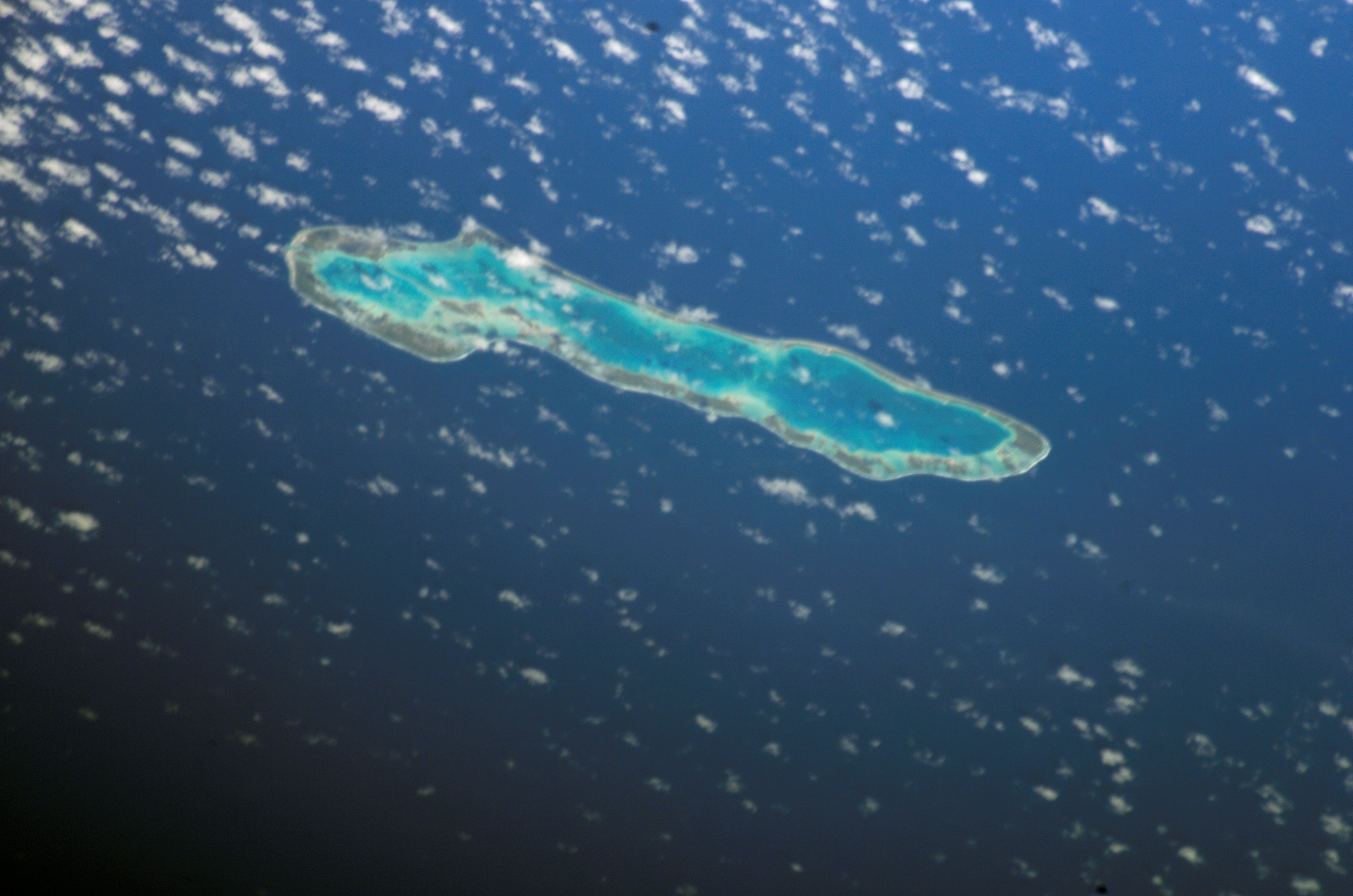 NASA Astronaut Image of Anaa Atoll (Tuamotu Archipelago, French Polynesia) in the Pacific Ocean